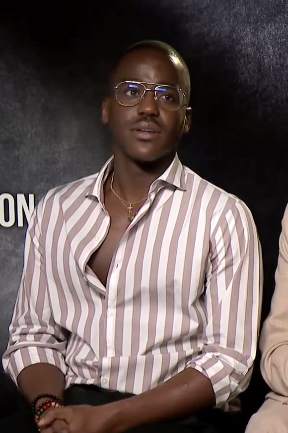 Ncuti Gatwa at an MTV International interview in January 2019